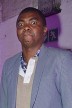 Loyiso Gola @ Sansui Cup Pre Cocktail Party at Mainstream Life in Johannesburg